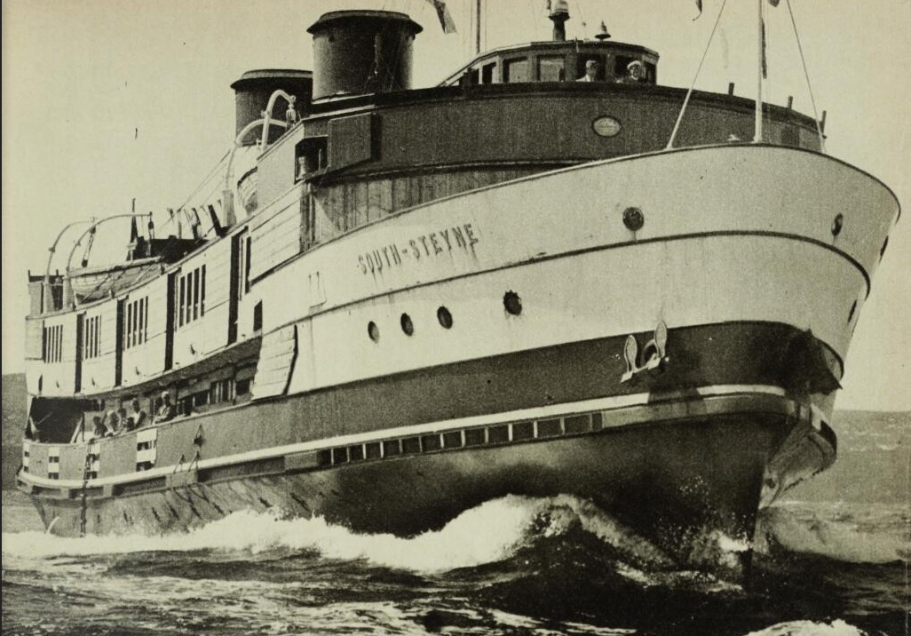 Sydney ferry SOUTH STEYNE arriving in Sydney Harbour from Scotland 9 September 1938